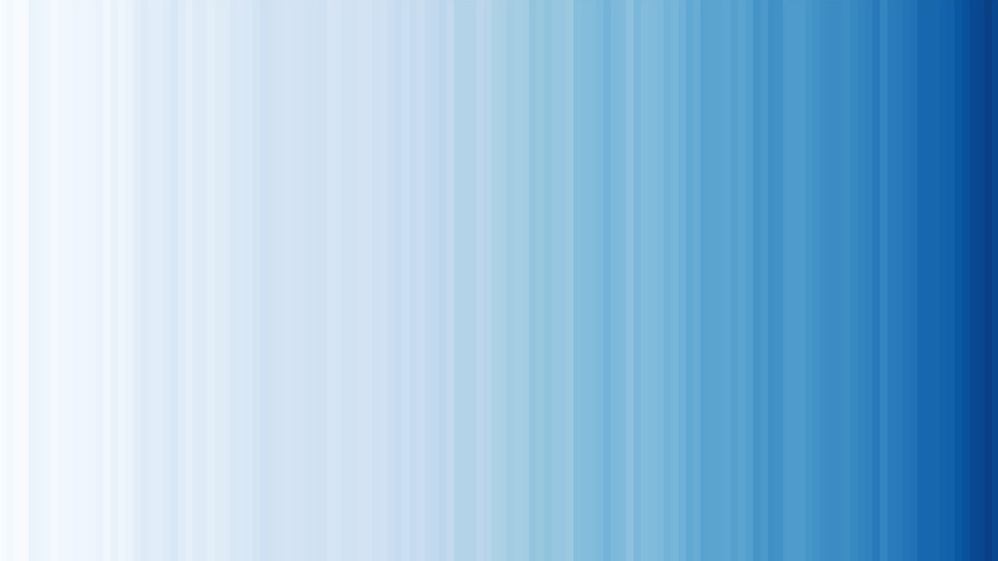 A stripe graphic portraying sea level rise from 1880-2013 using the same graphical technique as Warming stripes.